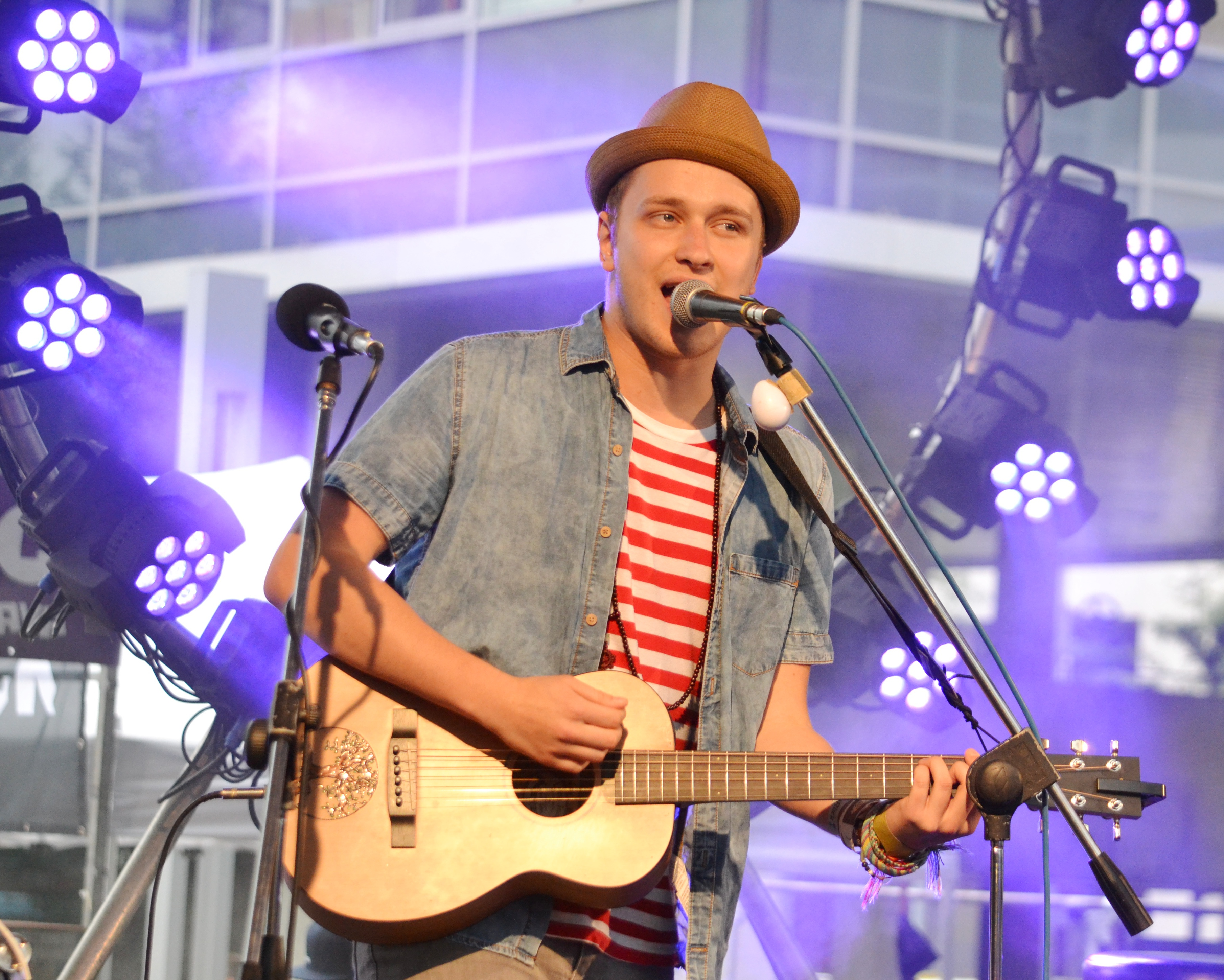 Václav Lebeda, stage name Voxel, Czech musician